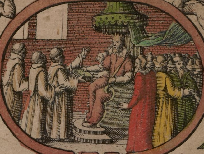 Ethelbert of Kent